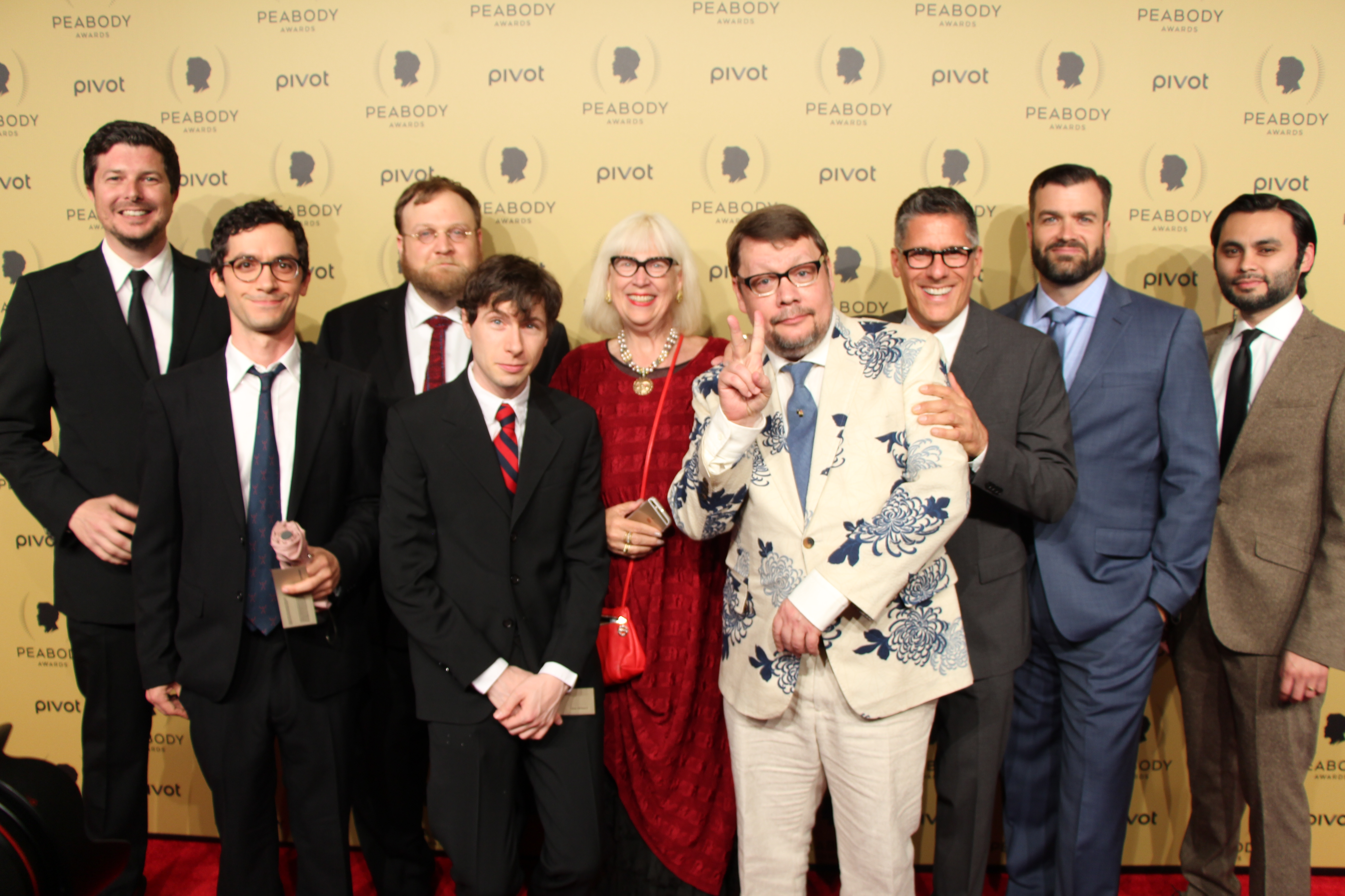 The Adventure Time team on the red carpet, including Kent Osborne, Tom Herpich, Pendleton Ward, Patrick McHale, Betty Ward, Jack Pendarvis, Rob Sorcher, Curtis LeLash and Adam Muto. Cipriani Wall Street